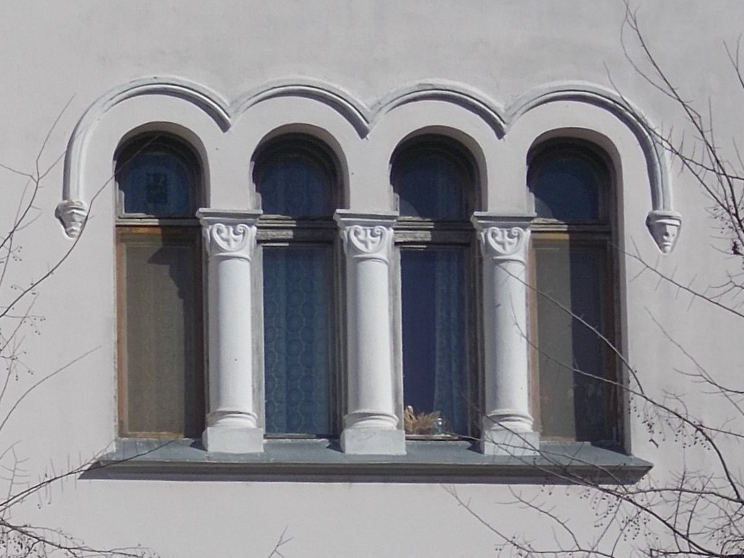 Convent/nunnery of the Kalocsa School sisters named after Our Lady. Built in 1860. Planned by Karl Rösner. - 3 and 5 Asztrik tér, Kalocsa, Bács-Kiskun County.